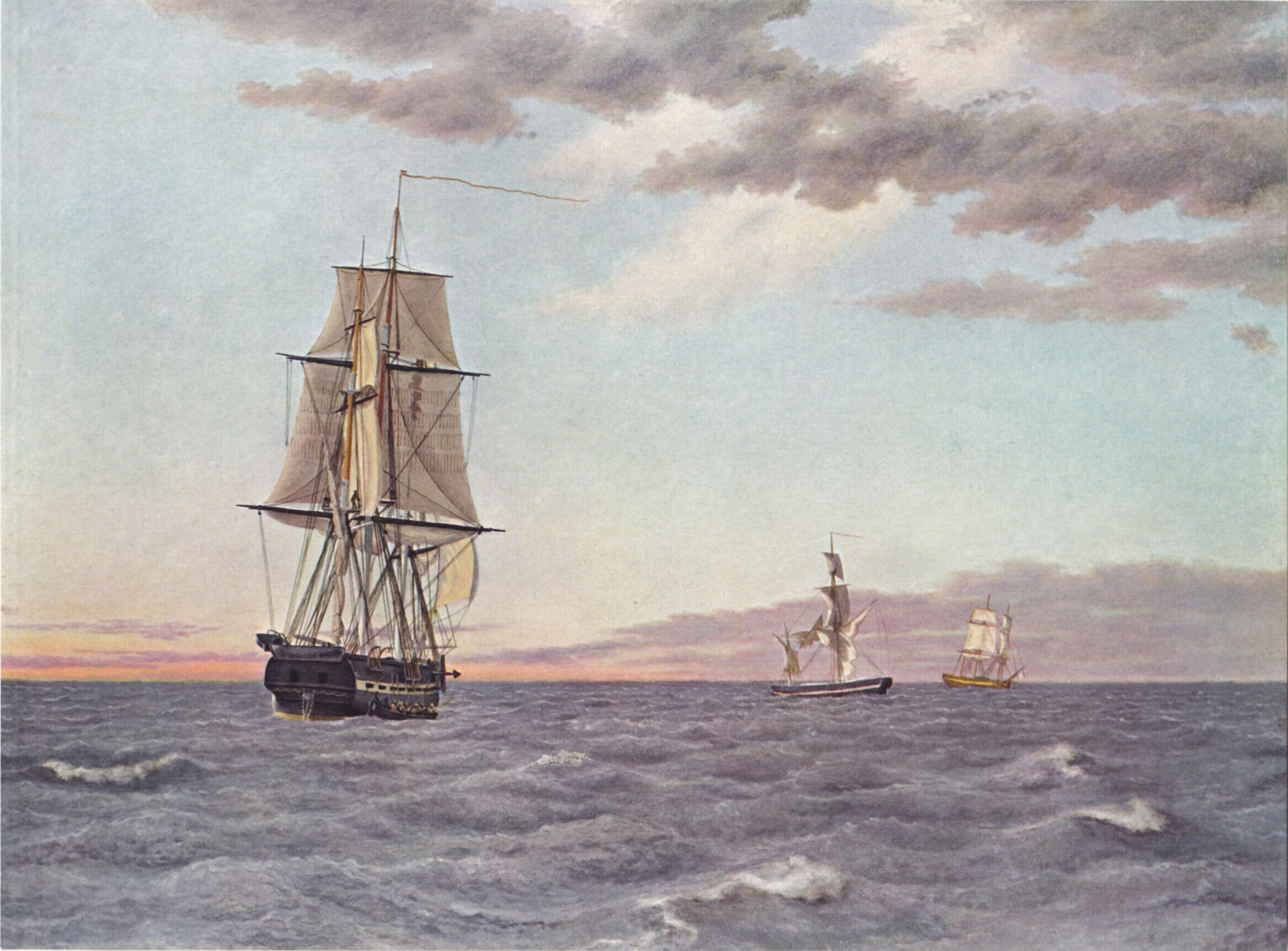 The Corvette "Galathea" lying to in order to send help to the Brig "St. Jan".